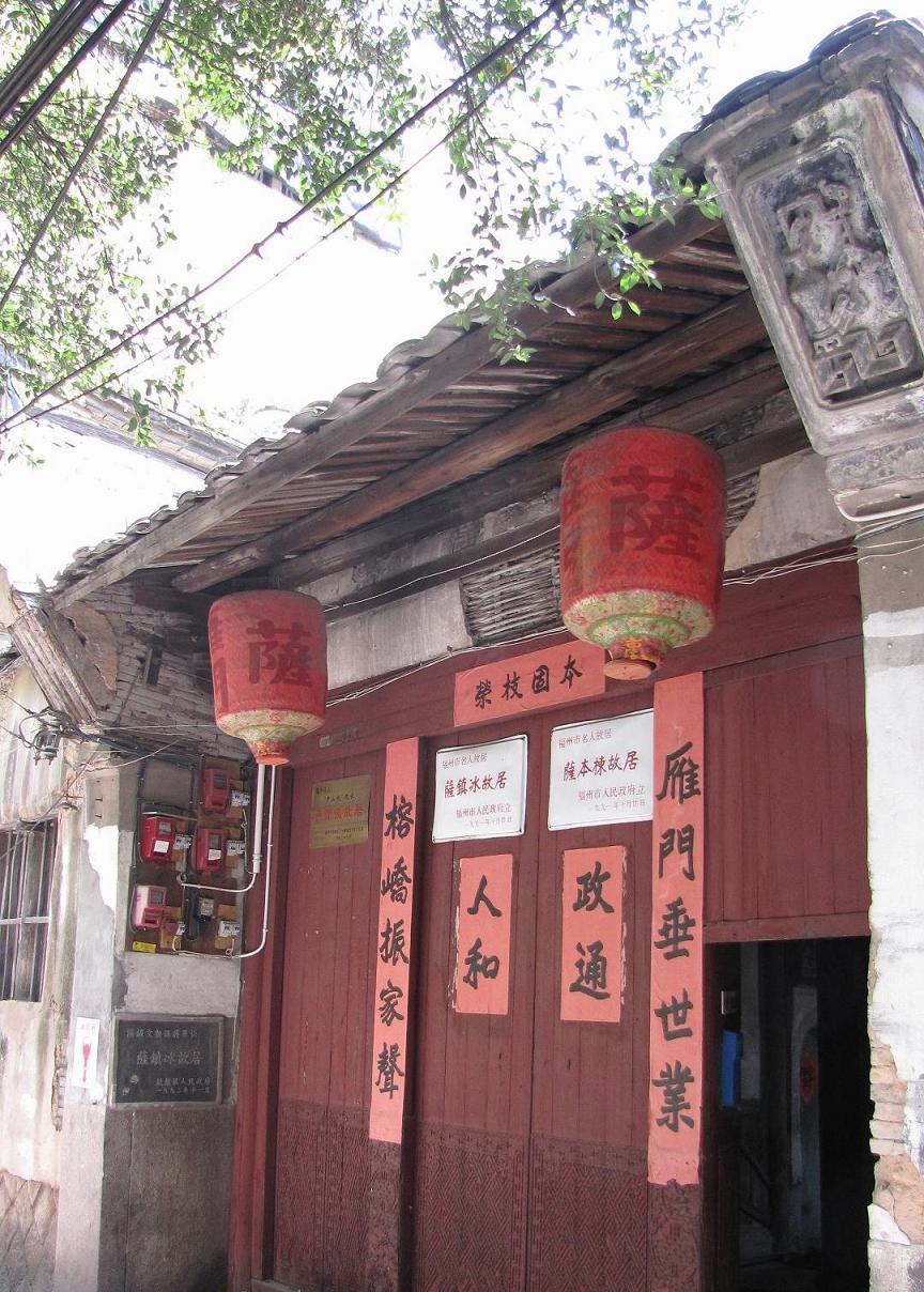 Home of Sa Zhenbing, Chinese Navy leader and politician.